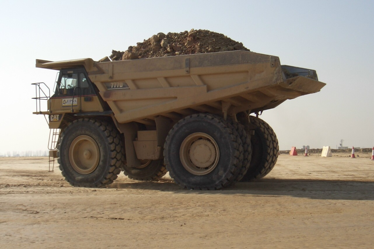 Caterpillar Dumper 777D, in Alguaire Airport building (Catalonia).